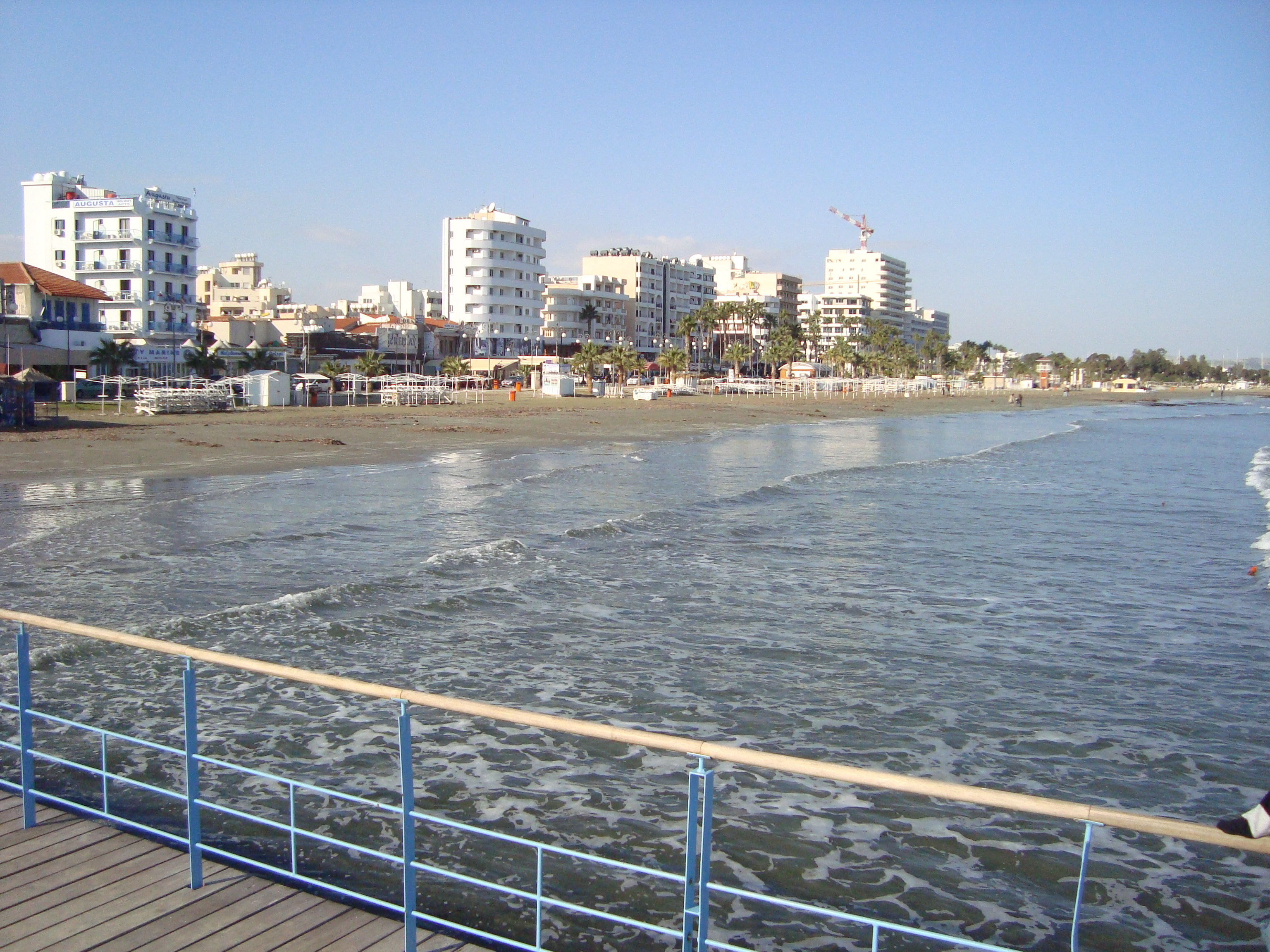 Larnaca view by the sea in January 2011